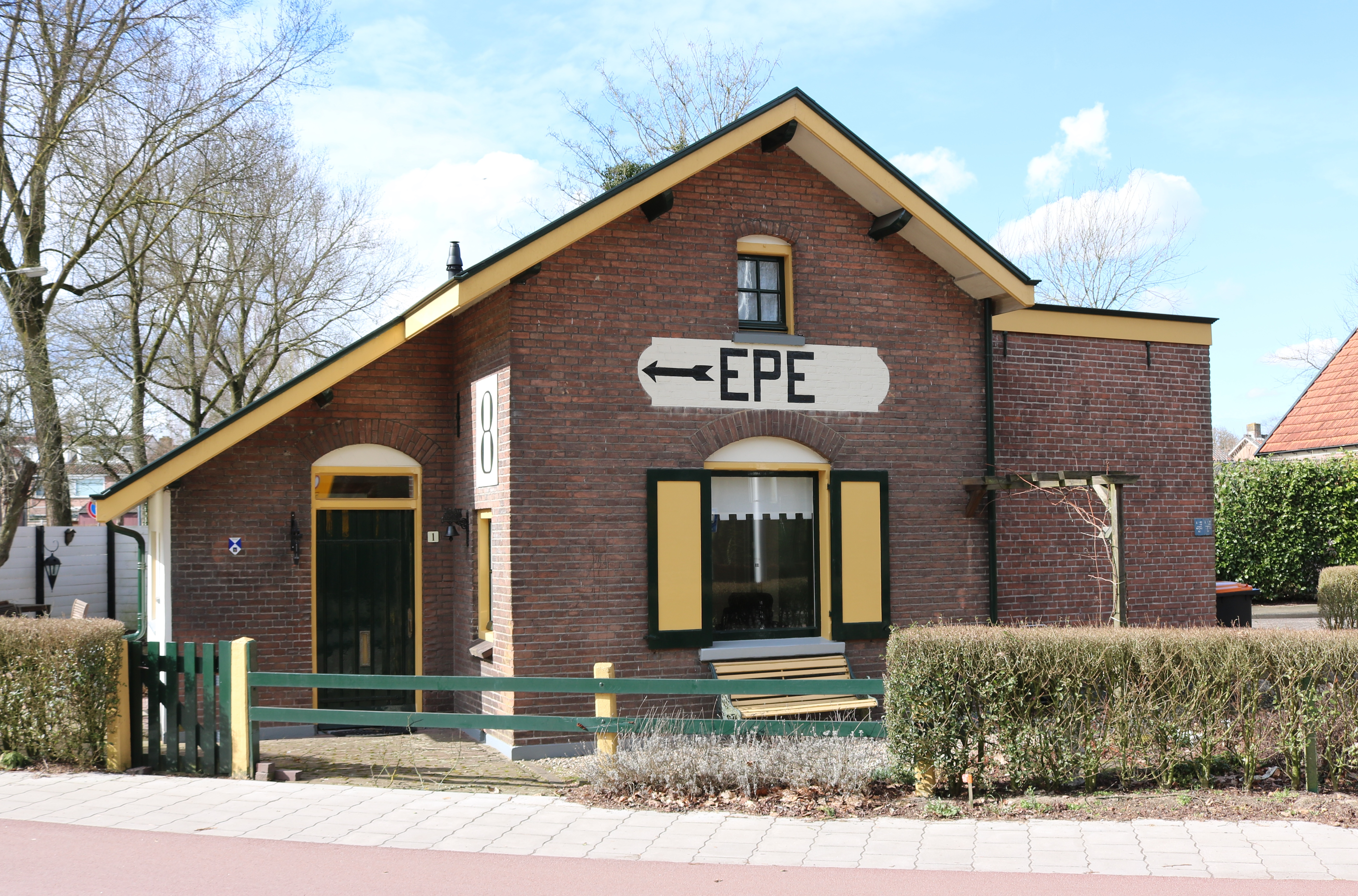 signalman's house Epe